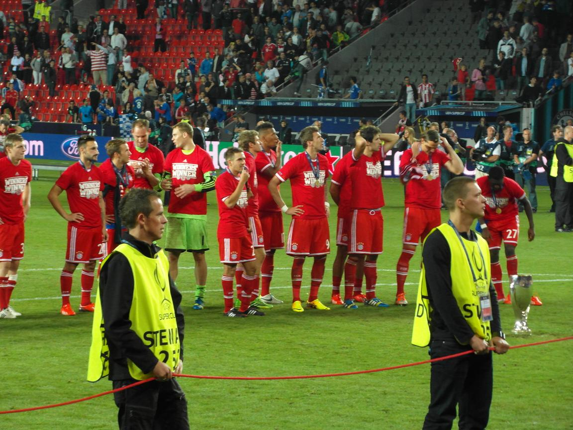 Bayern Munchen